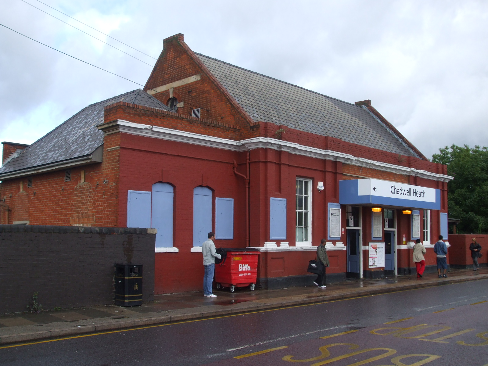 Chadwell Heath railway station